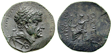 Cilicia, Kings of. Tarkondimotos. Circa 39-31 BC. Æ 23mm (7.24 gm). Diademed head right; mint mark: anchor BASILE[OS] right, TARKONDIM[O]-TOU, [FILANTWNIOU] in exergue, Zeus seated left, holding Nike in right hand, sceptre in left. RPC I 3871; SNG Levante 1258; SNG France 1913ff; SNG Copenhagen -; BMC Cilicia pg. 237, 1ff; SNG von Aulock 5413; Laffaille 544. Superb EF, dark grayish green patina. Exceptional and as good as these come.